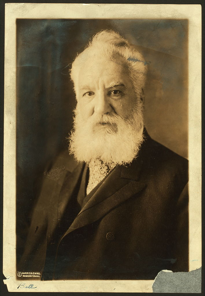 Alexander Graham Bell, half-length portrait